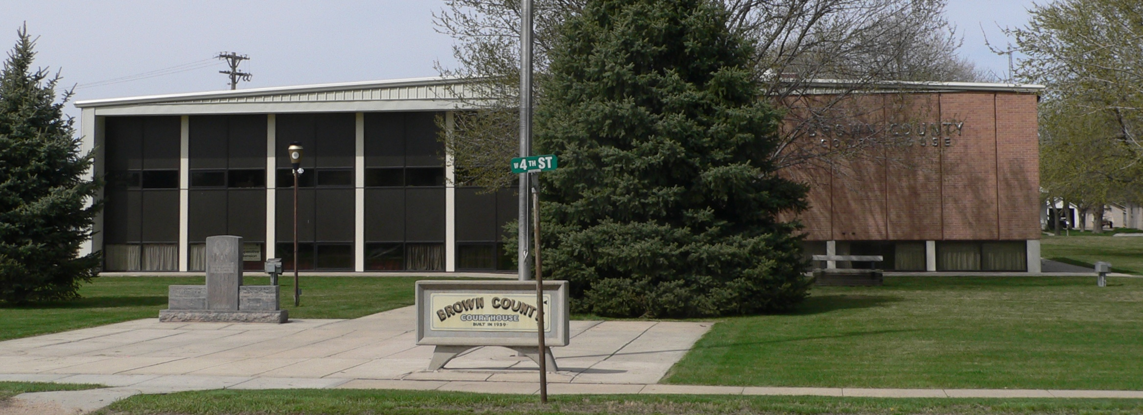 Brown County courthouse in Ainsworth, Nebraska; seen from the south. The building was constructed in 1959.